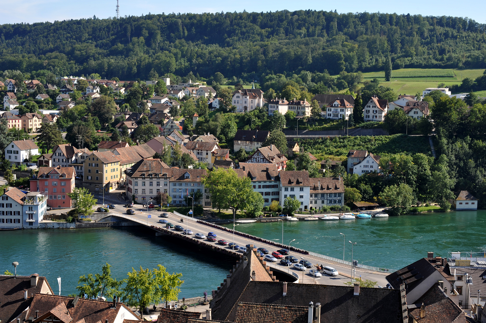 Road bridge between Schaffhausen and Feuerthalen; Schaffhausen and Zurich, Switzerland.